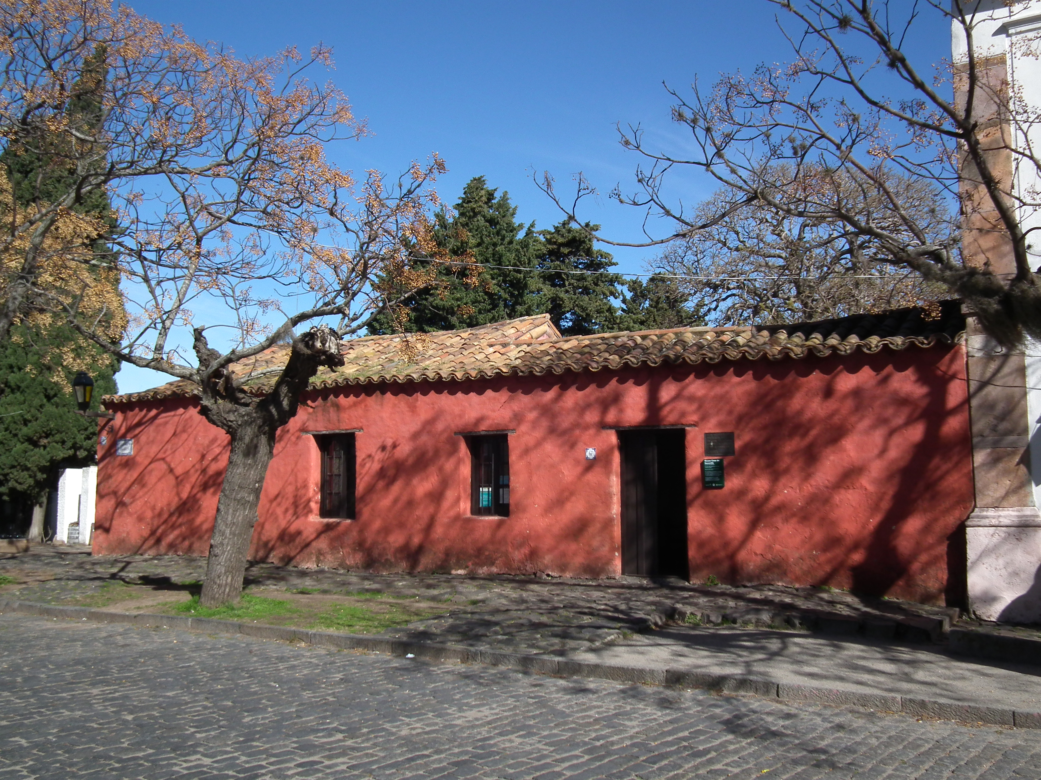 Nacarello House in Colonia del Sacramento